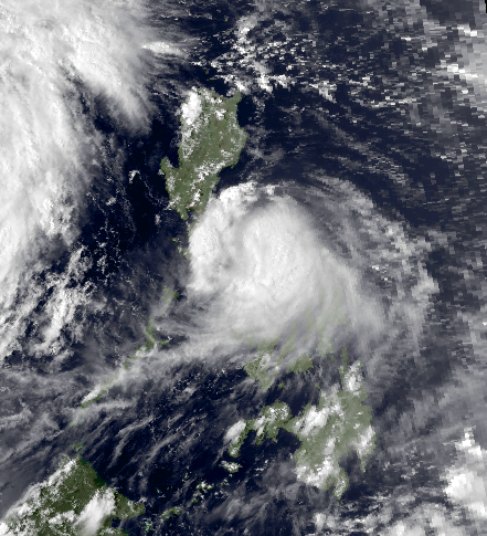 Severe Tropical Storm Mac (Pepang) on September 18, 1979